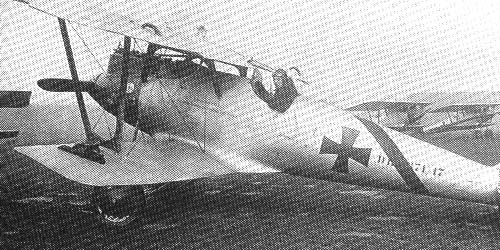 Rüdenberg in the Cockpit of a Pfalz D. III